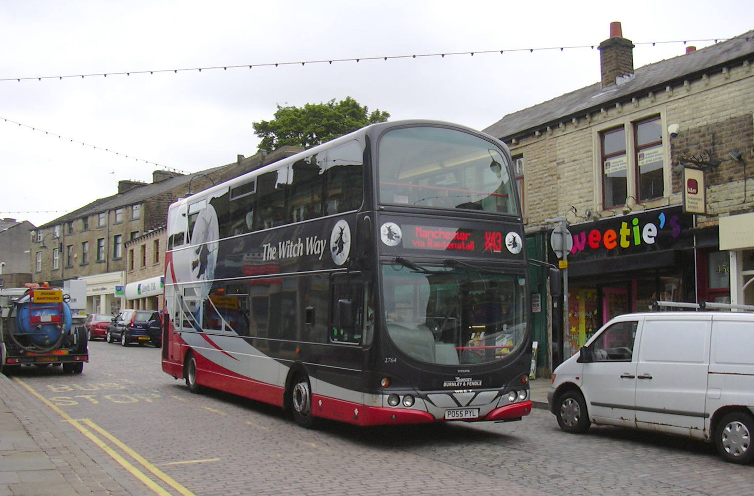 X43 "The Witch Way" Bank Street, Rawtenstall, Lancashire, Data from Geograph: Description: SD8122 :: X43 "The Witch Way" Bank Street, Rawtenstall, Lancashire, near to Rawtenstall, Lancashire, Great Britain ICBM: 53.702372493833, -2.285187356866 Location: (about 1 km from) near to Rawtenstall, Lancashire, Great Britain.